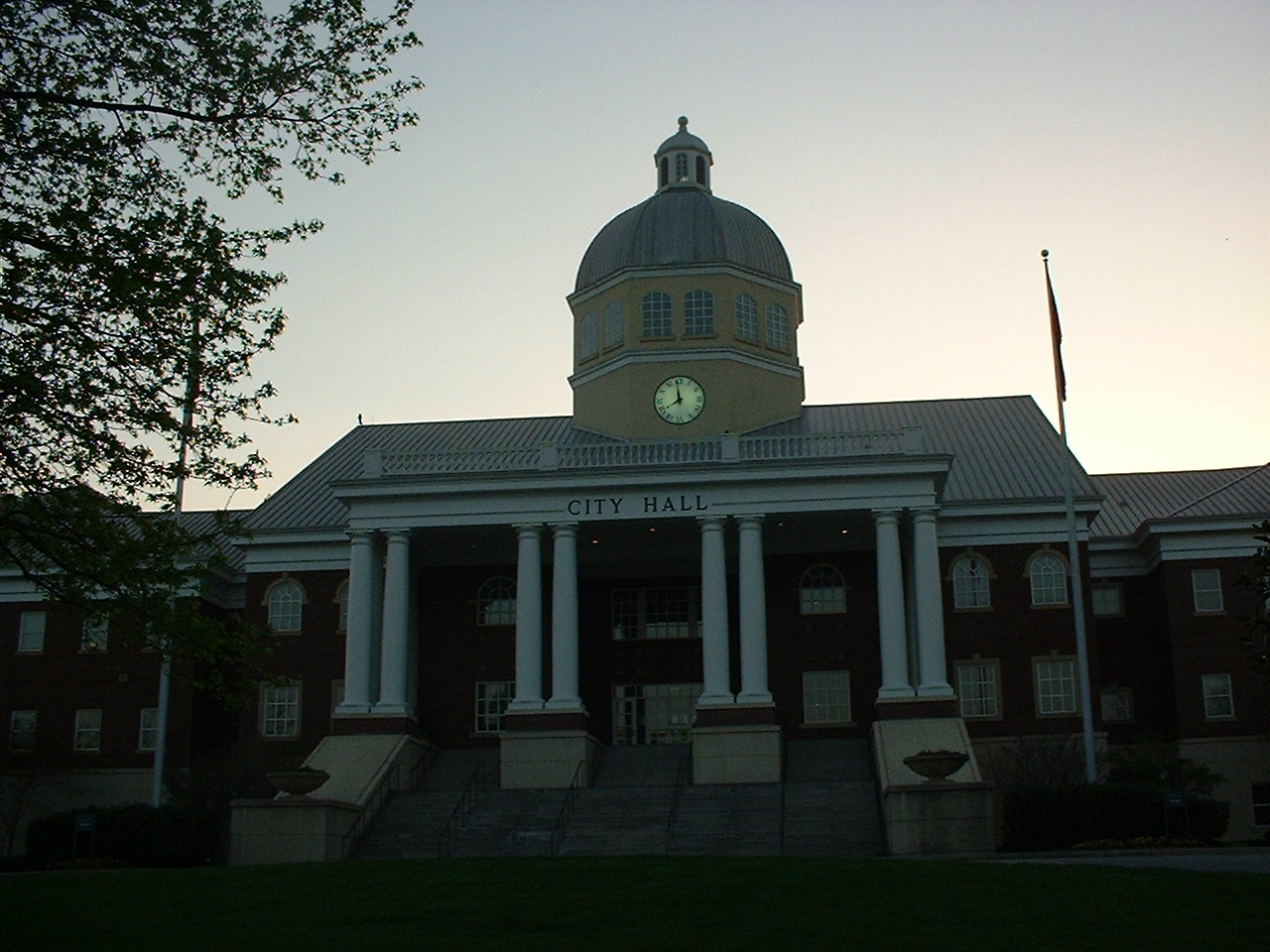 Roswell, Georgia city hall. Taken by me on April 16, 2005.